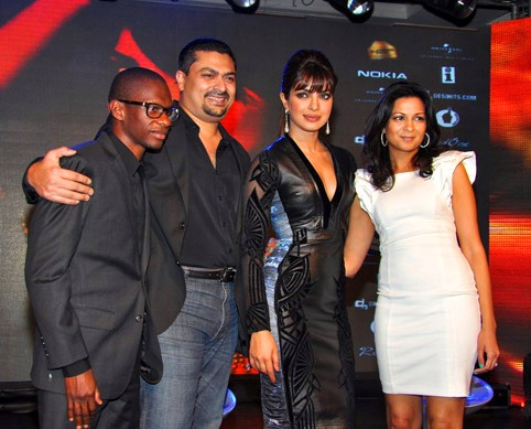 Priyanka Chopra at the single cover release of "In My City"